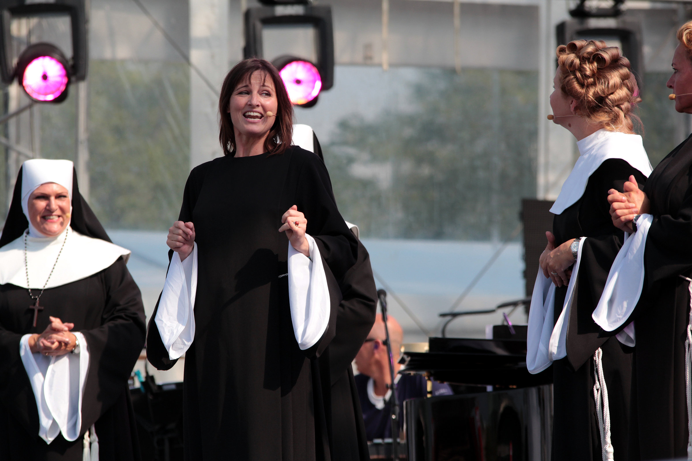 Brigitte Heitzer and other cast members of the musical Nonsens (Nunsense) during rehearsals for the musical singalong at the Uitmarkt 2015 in Amsterdam.